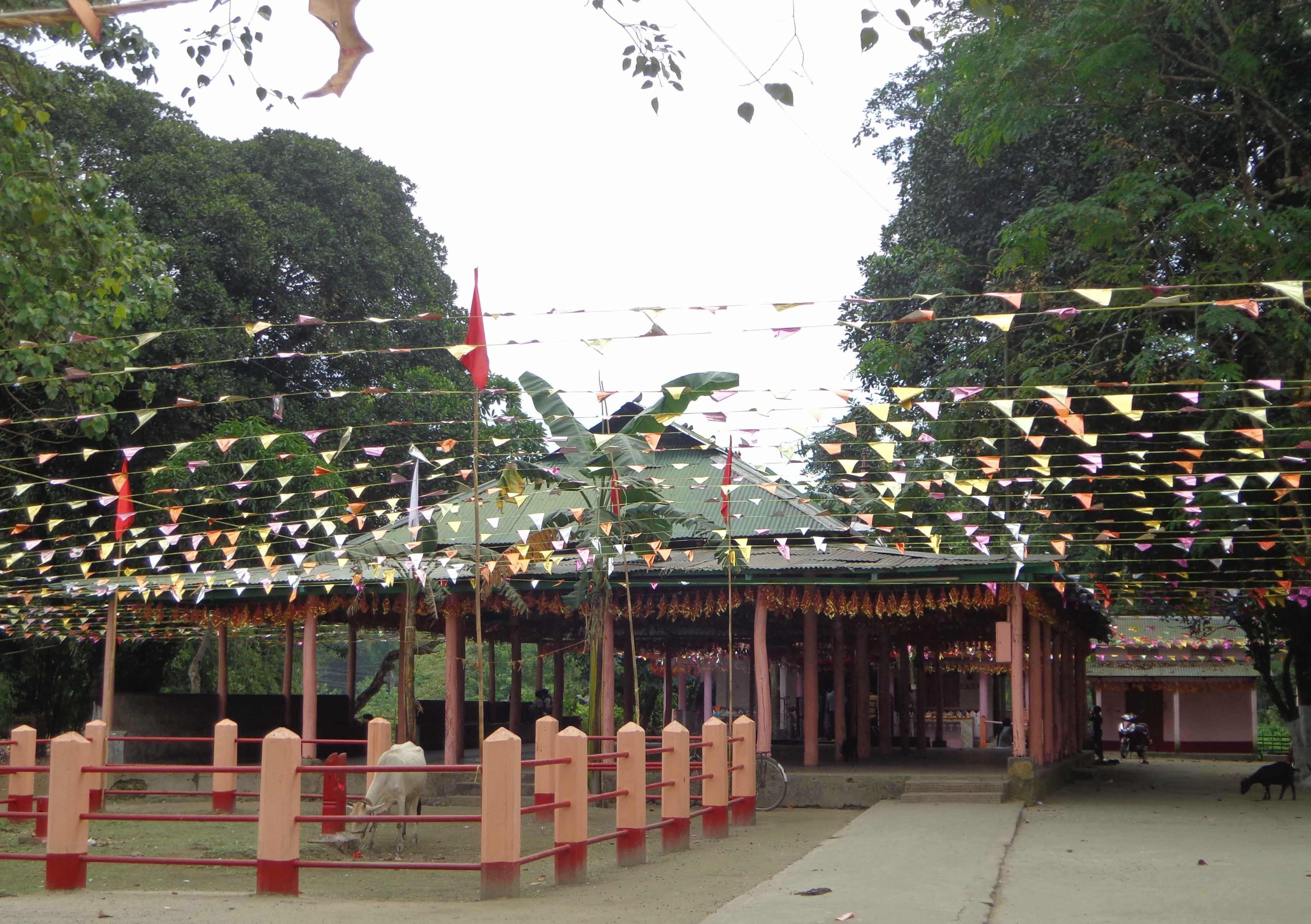 Photo of the Bagheswari Temple, Bongaigaon, Assam